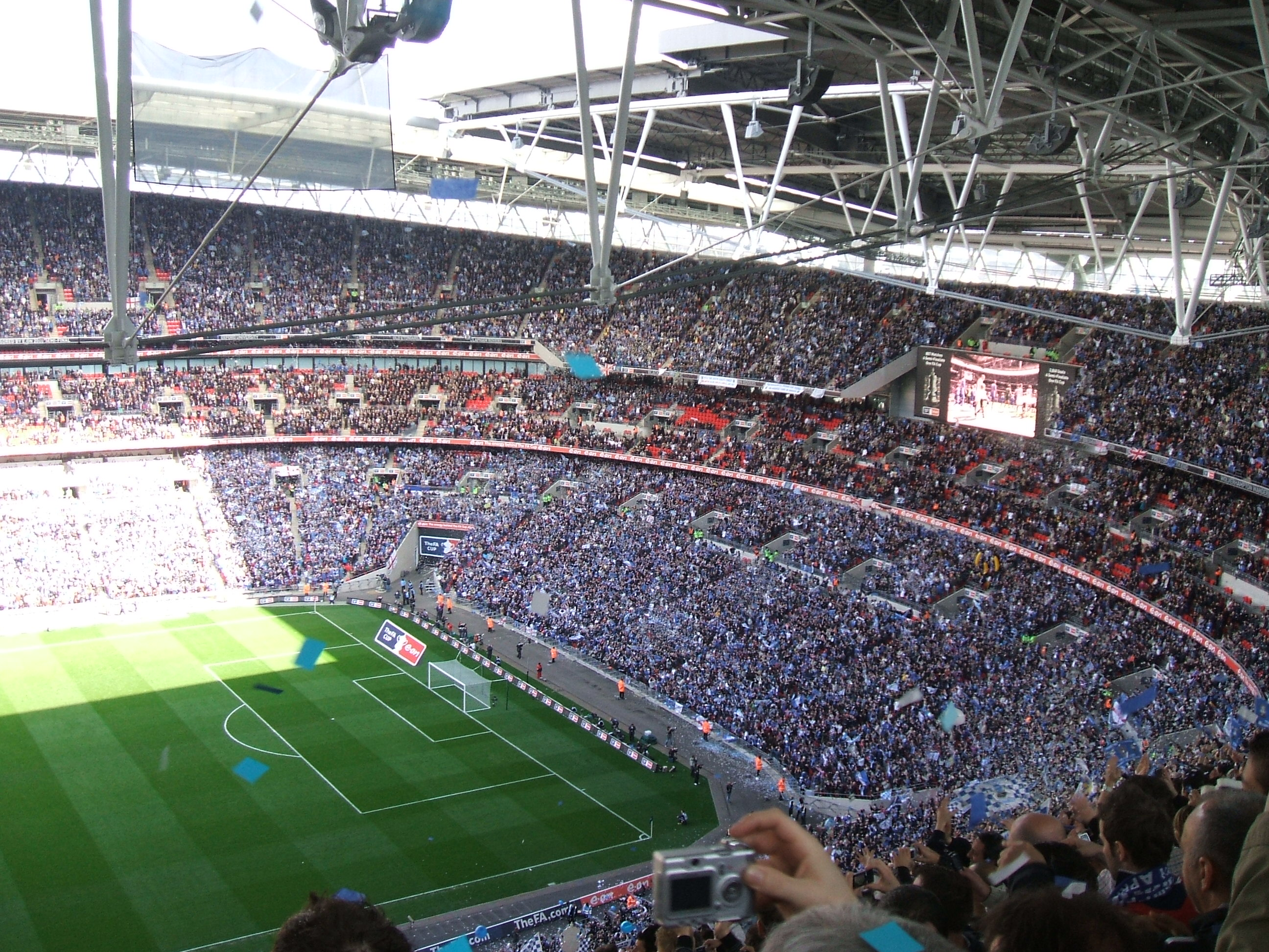 Portsmouth fans at Wembley Stadium for the 2007-08 FA Cup semi-final with Cardiff City FC